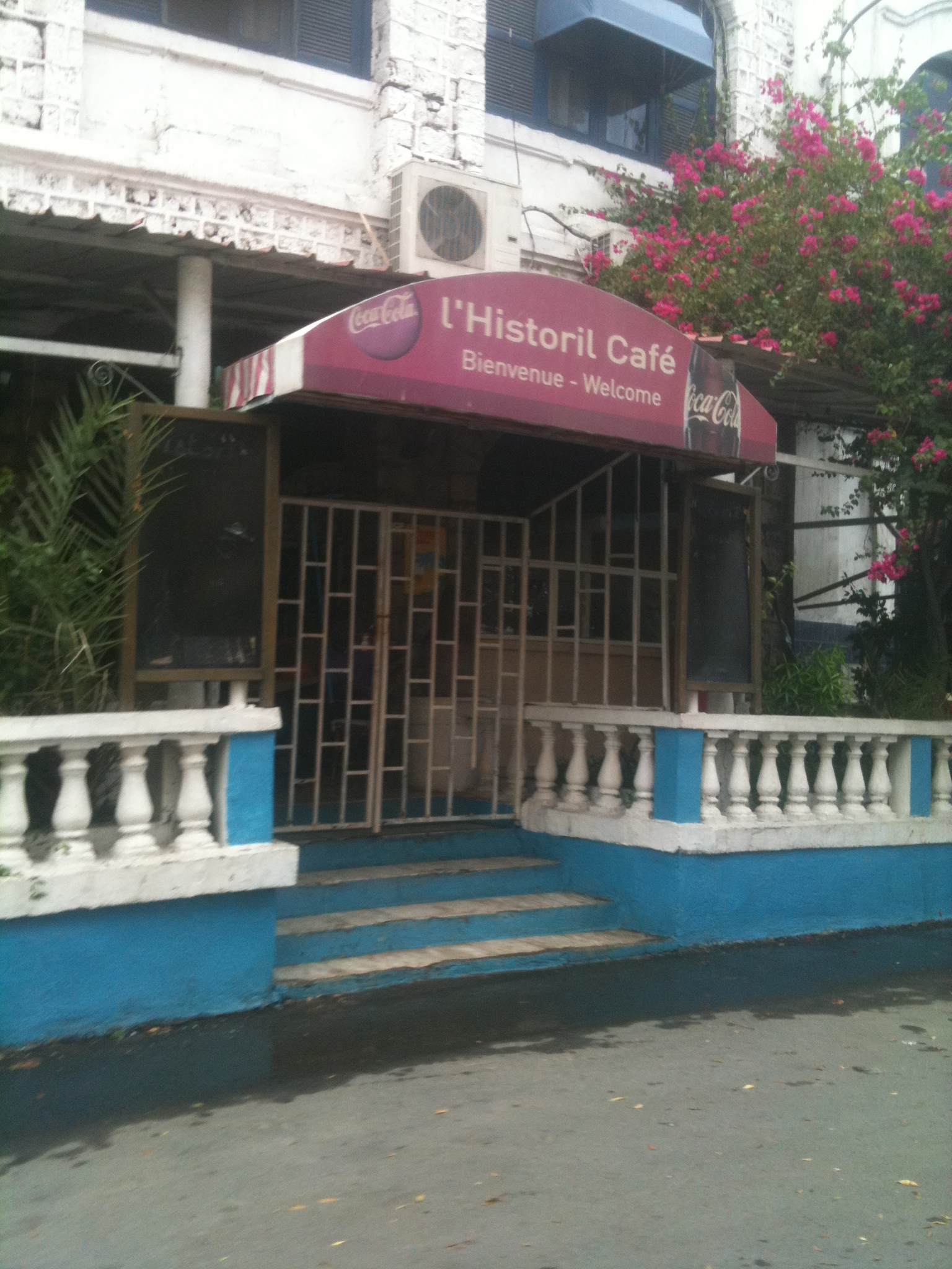 L'historil cafe in Djibouti